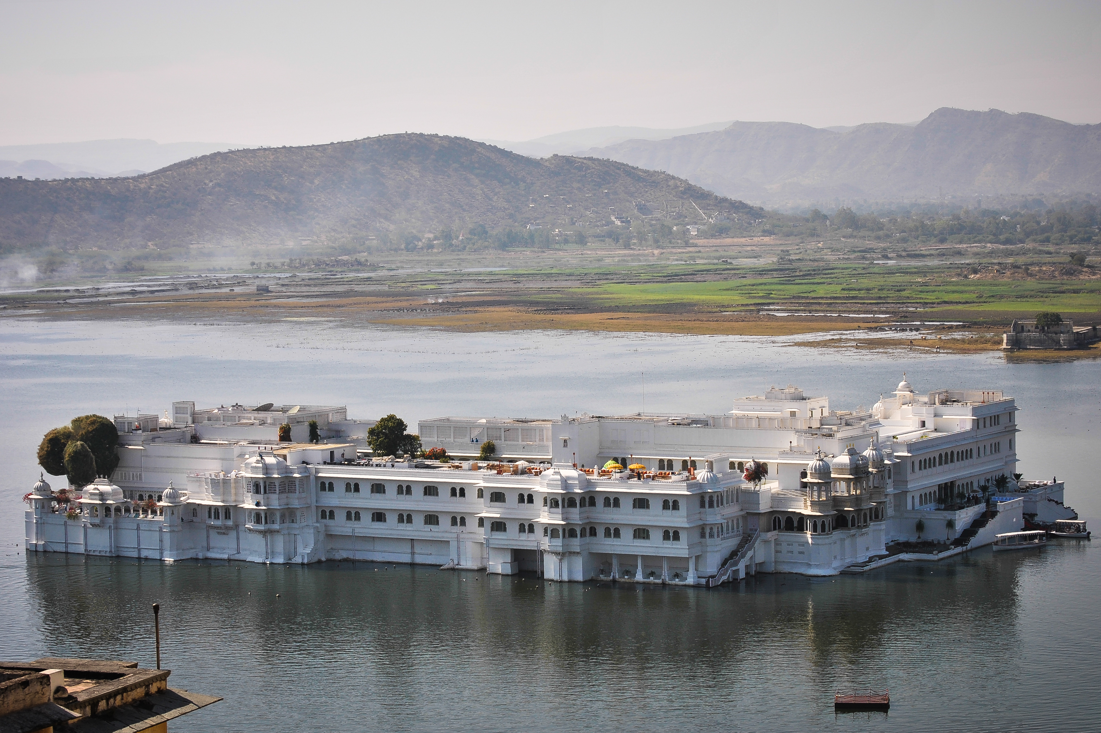 Rajasthan-Udaipur_Palace_Inside